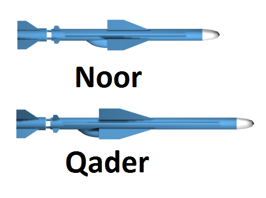 Noor and Qader missiles